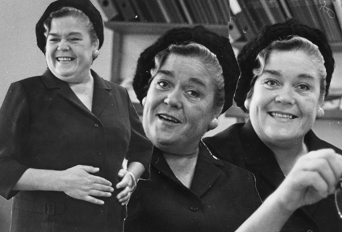 Norwegian actress Kari Diesen in Morgenposten, October 31, 1960